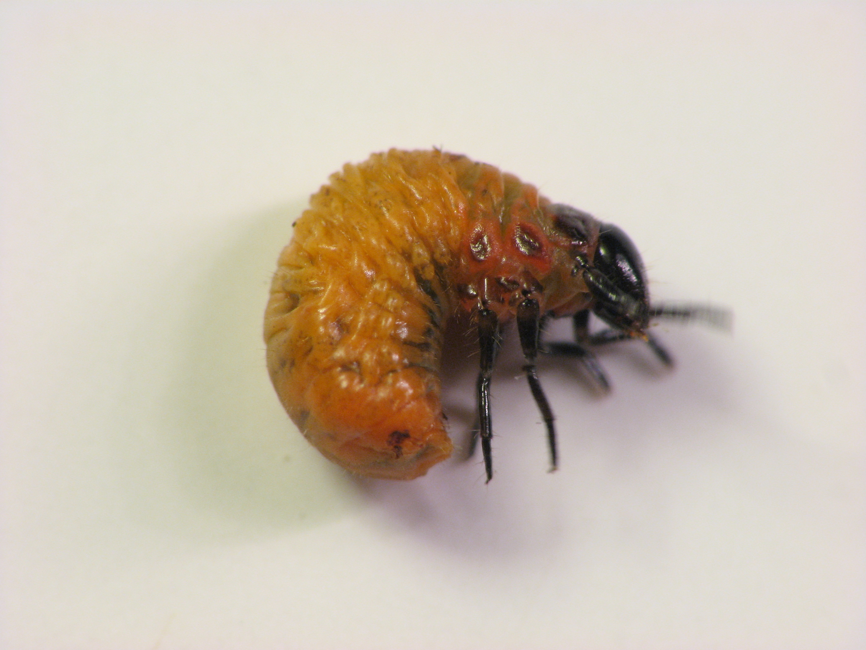 Warty leaf beetle, Neochlamisus, removed from its larval fecal case. Size: larva (stretched out) 10 mm, casing 7 mm. Pennypack Restoration Trust, Montgomery County, Pennsylvania, USA. 40.1420° N, 75.0830° W.